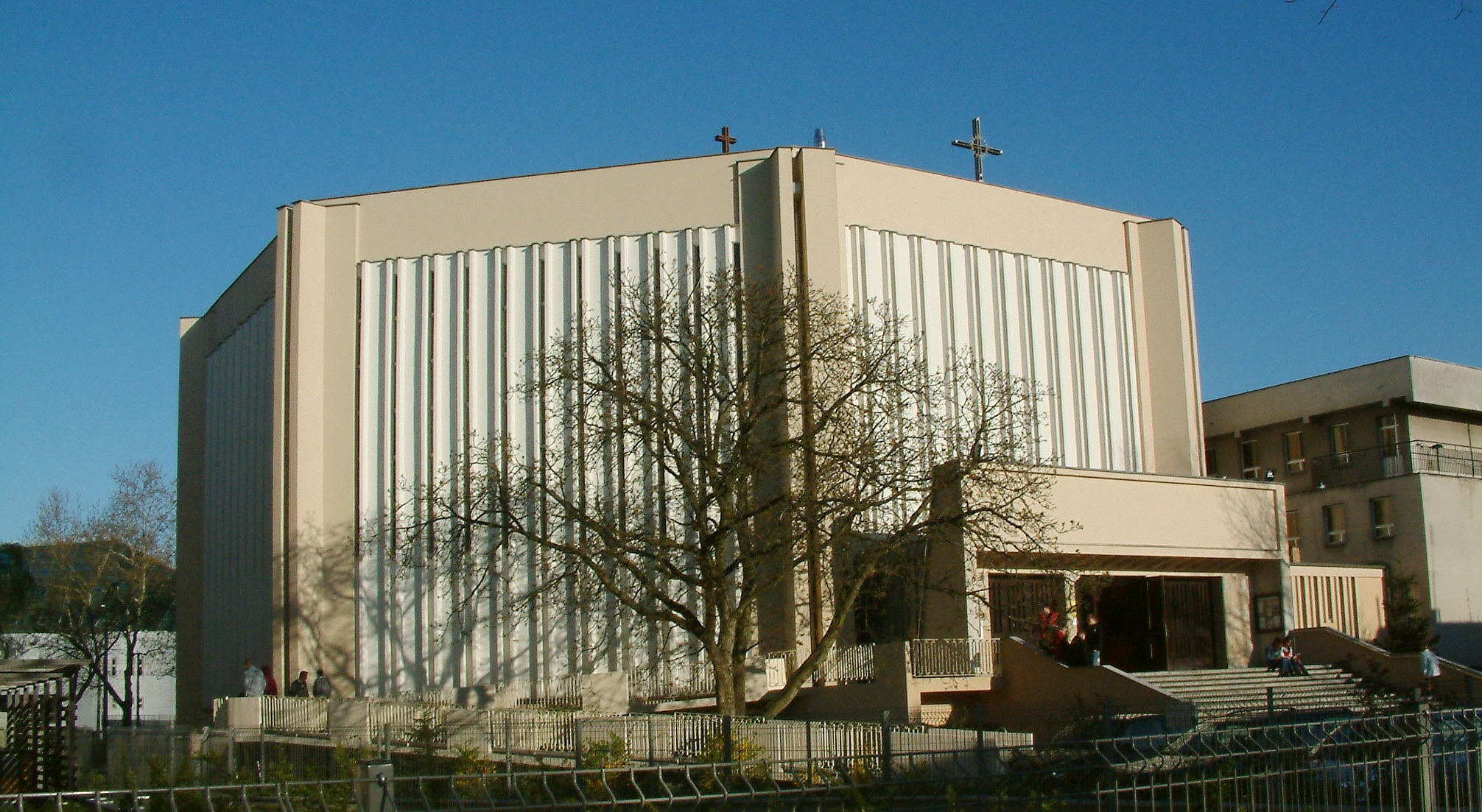 Church of St. Lawrence of Rome in Poznań (Pallottines)